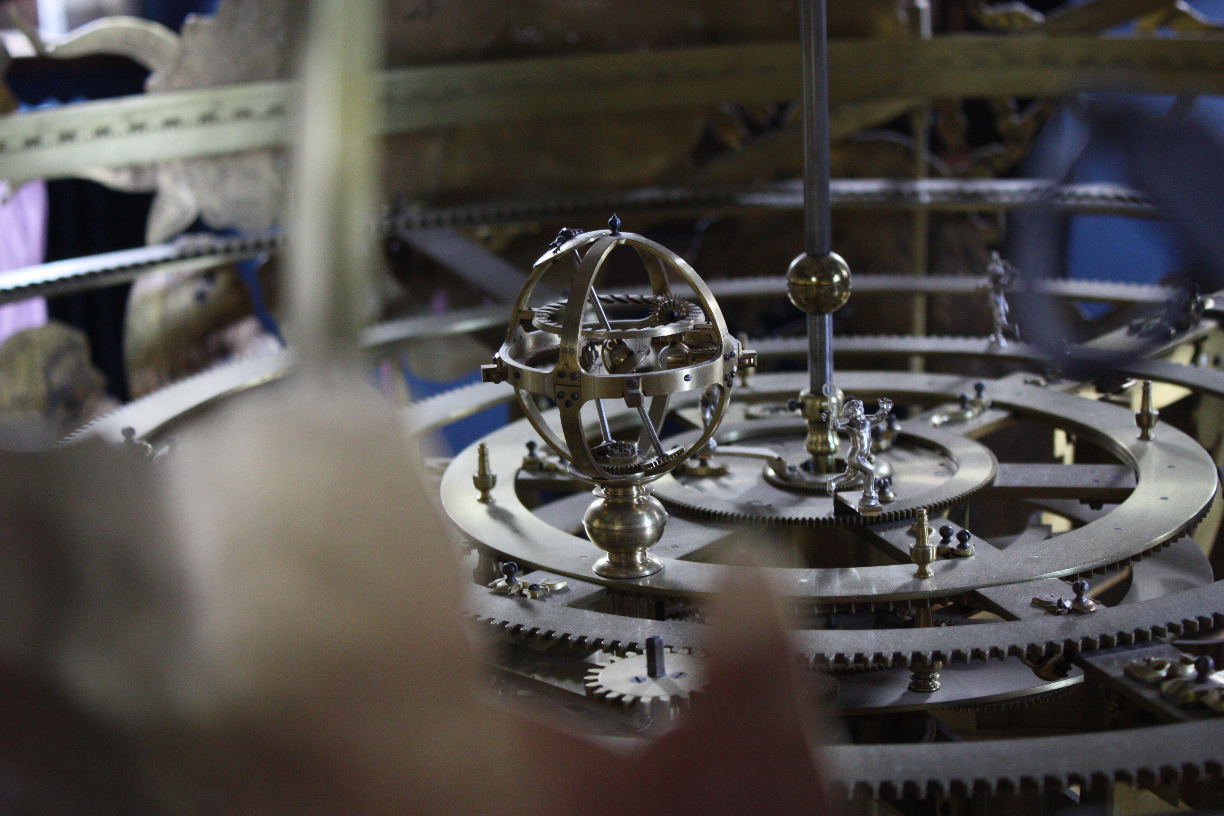 The celestial globe from Gottorp Castle in Schleswig, executed in 1654-57 for Duke Friedrich III of Gottorp by Andreas Bösch of Limburg with the assistance of Adam Olearius, Court Mathematician, Antiquarian, an Geographer. The planets move round the sun according to the Copernican system. The verry small globe above moves according to the Ptolomean system.